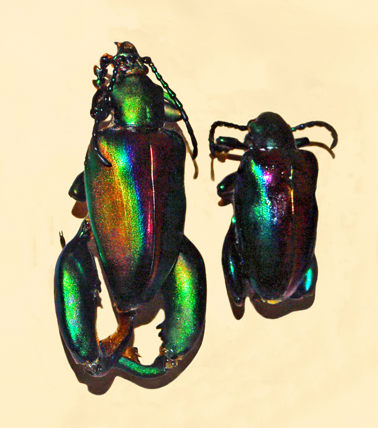 Sagra buqueti from Nias Islands. Male and female.